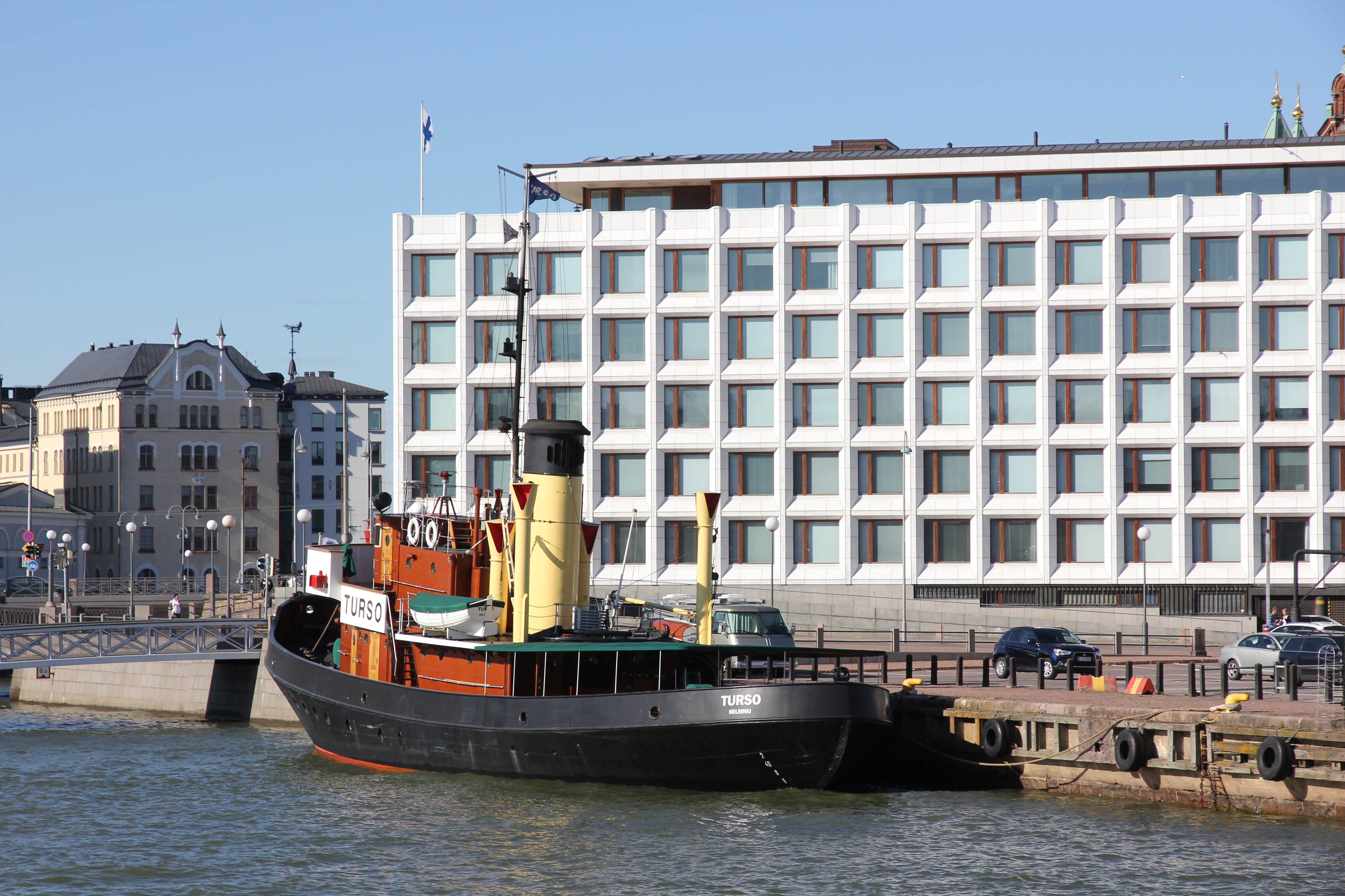 Preserved steam tug and harbour icebreaker Turso in Helsinki South Harbour.